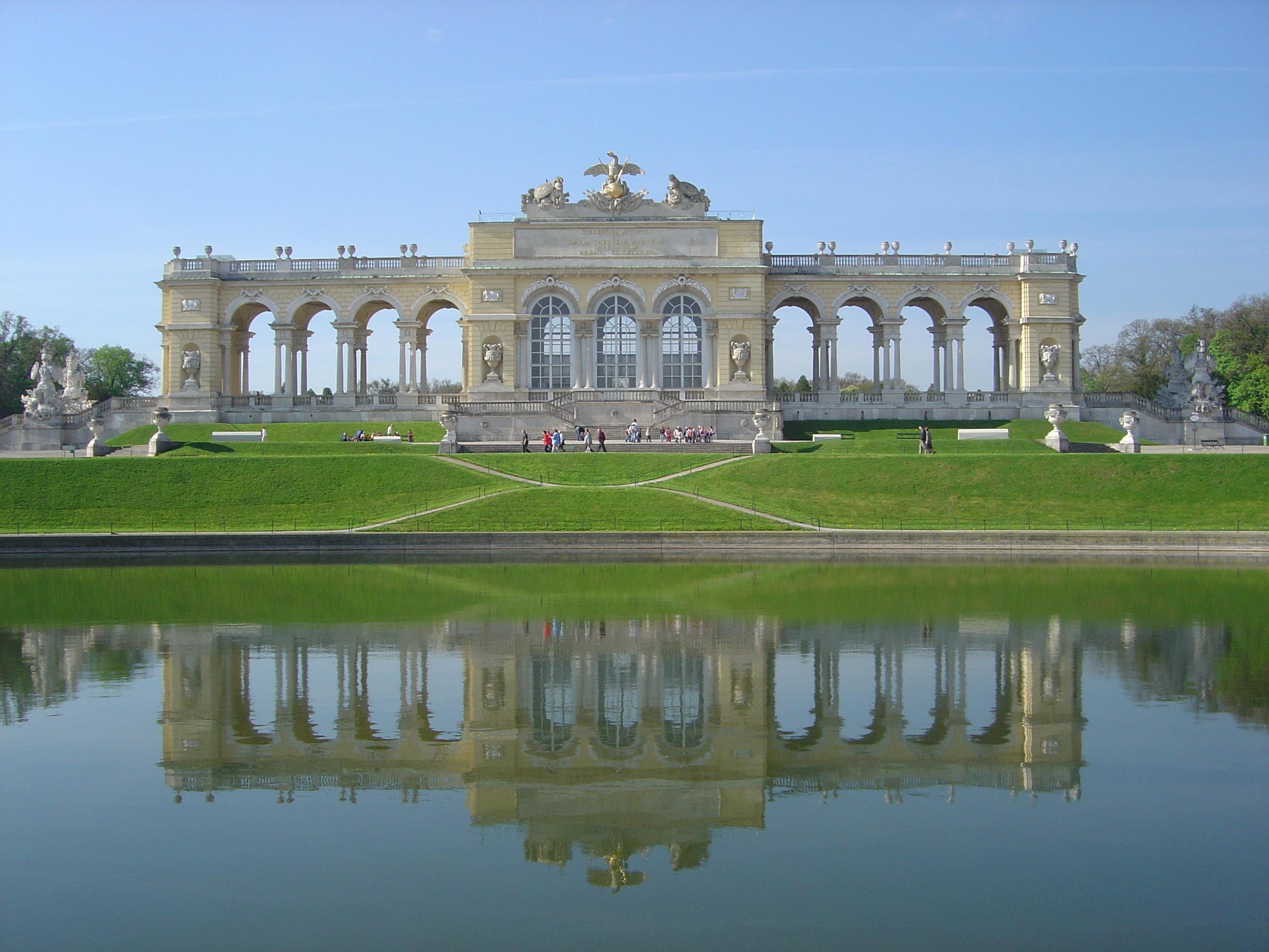 The Gloriette in Schloß Schönbrunn, Vienna, Austria.